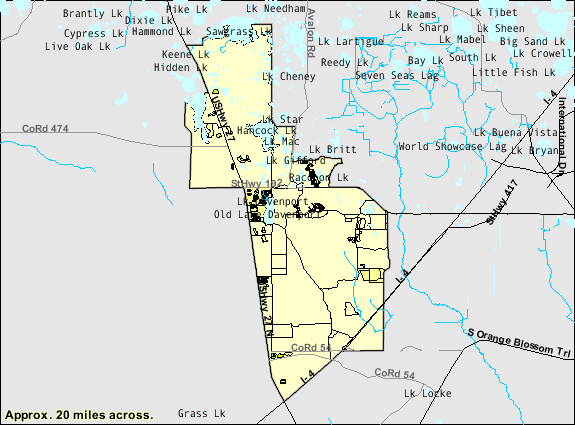 map of Citrus Ridge, Florida showing CDP boundaries